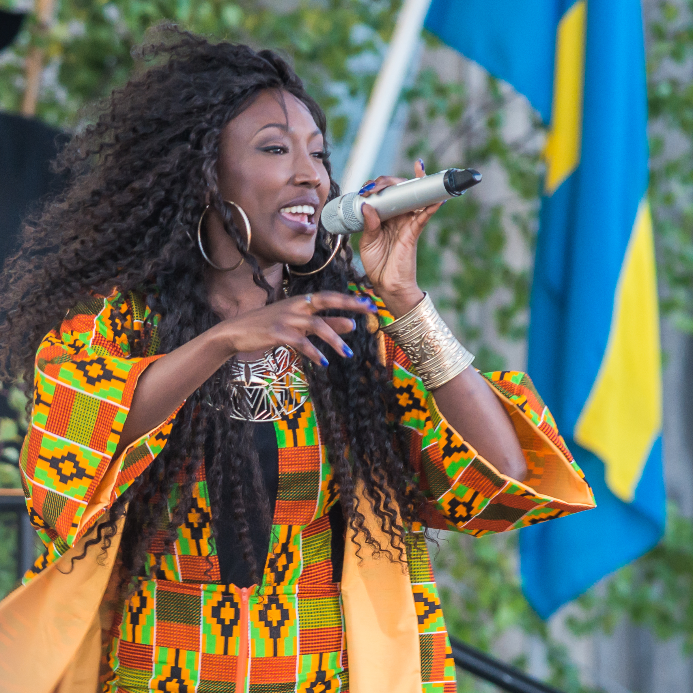 National Day of Sweden at Skansen, Stockholm, June 2015